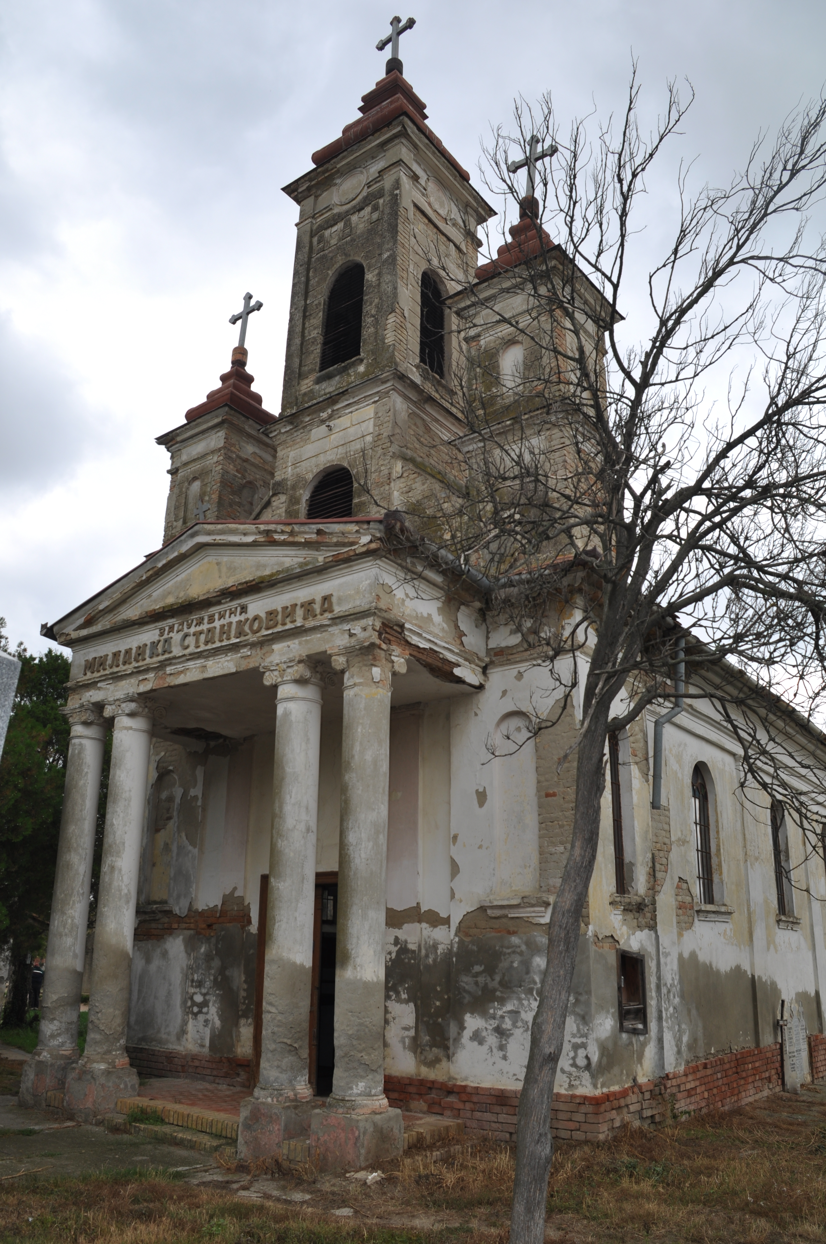 Orthodox cemetery chapel - Milanko Stanković foundation in Novi Bečej